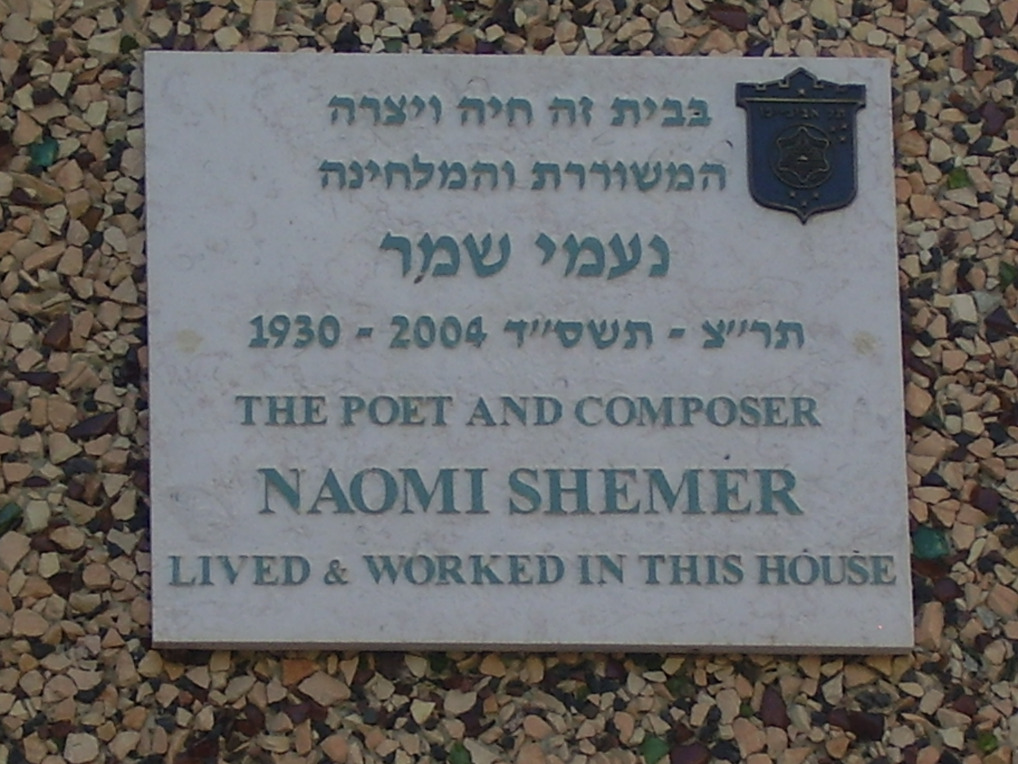 memorial plaque to the poet and composer naomi shemer house in tel aviv לוחית זיכרון על ביתה של נעמי שמר ברח' אופנהיימר 14 בתל אביב